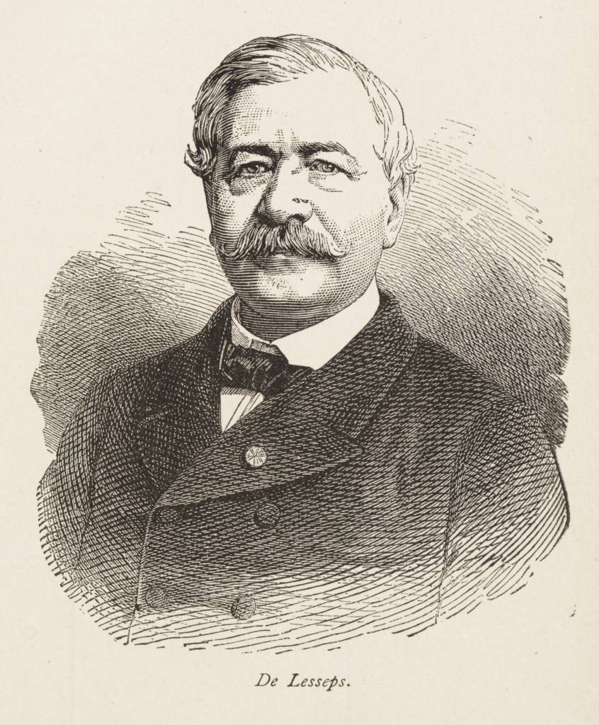 A portrait of M. de Lesseps.